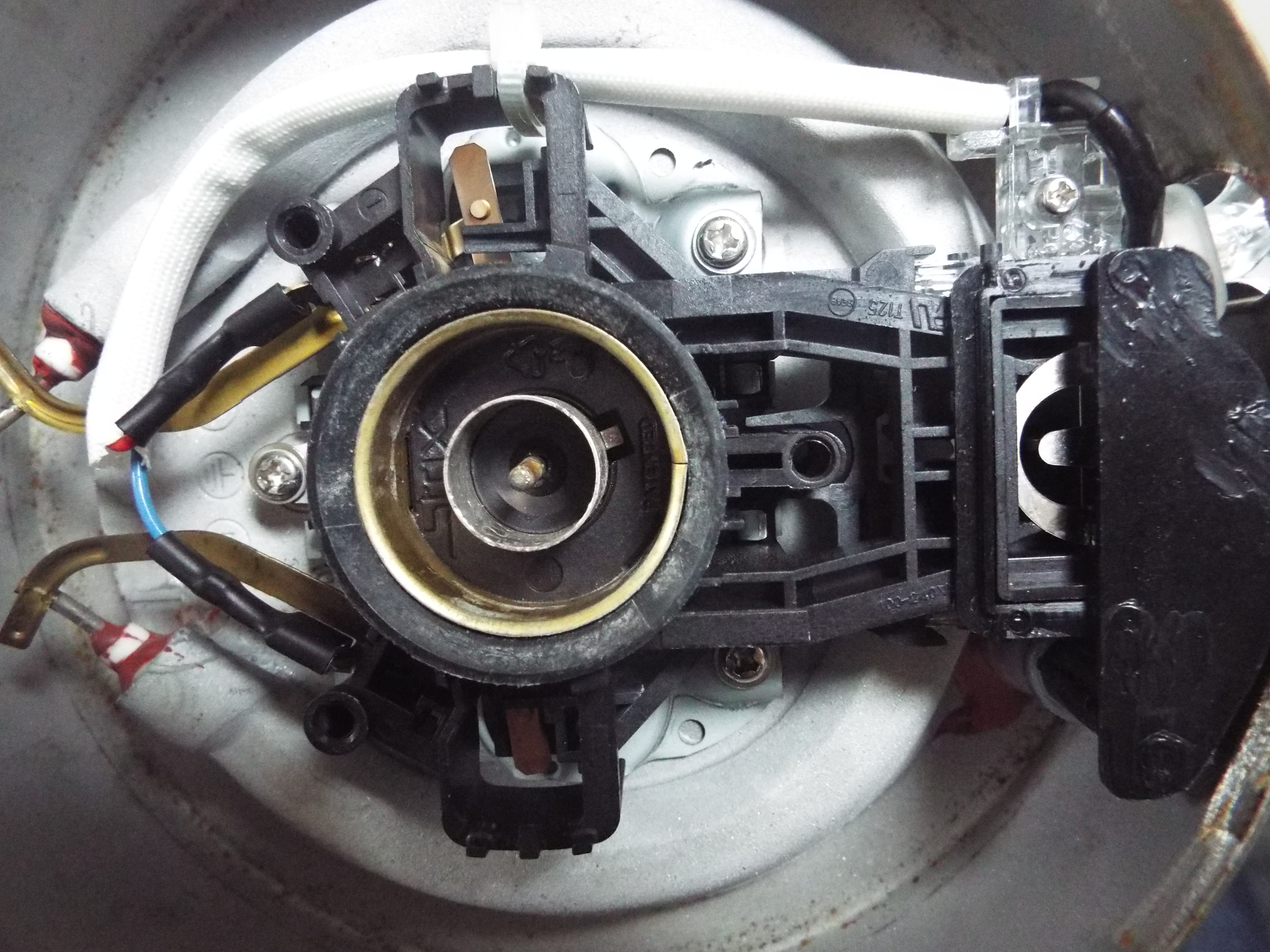 In a T-FAL kettle. Bi-metallic strip visible on the right. "steam was forced through an aperture in the lid of the strip and this knocked the switch, turning the kettle off"